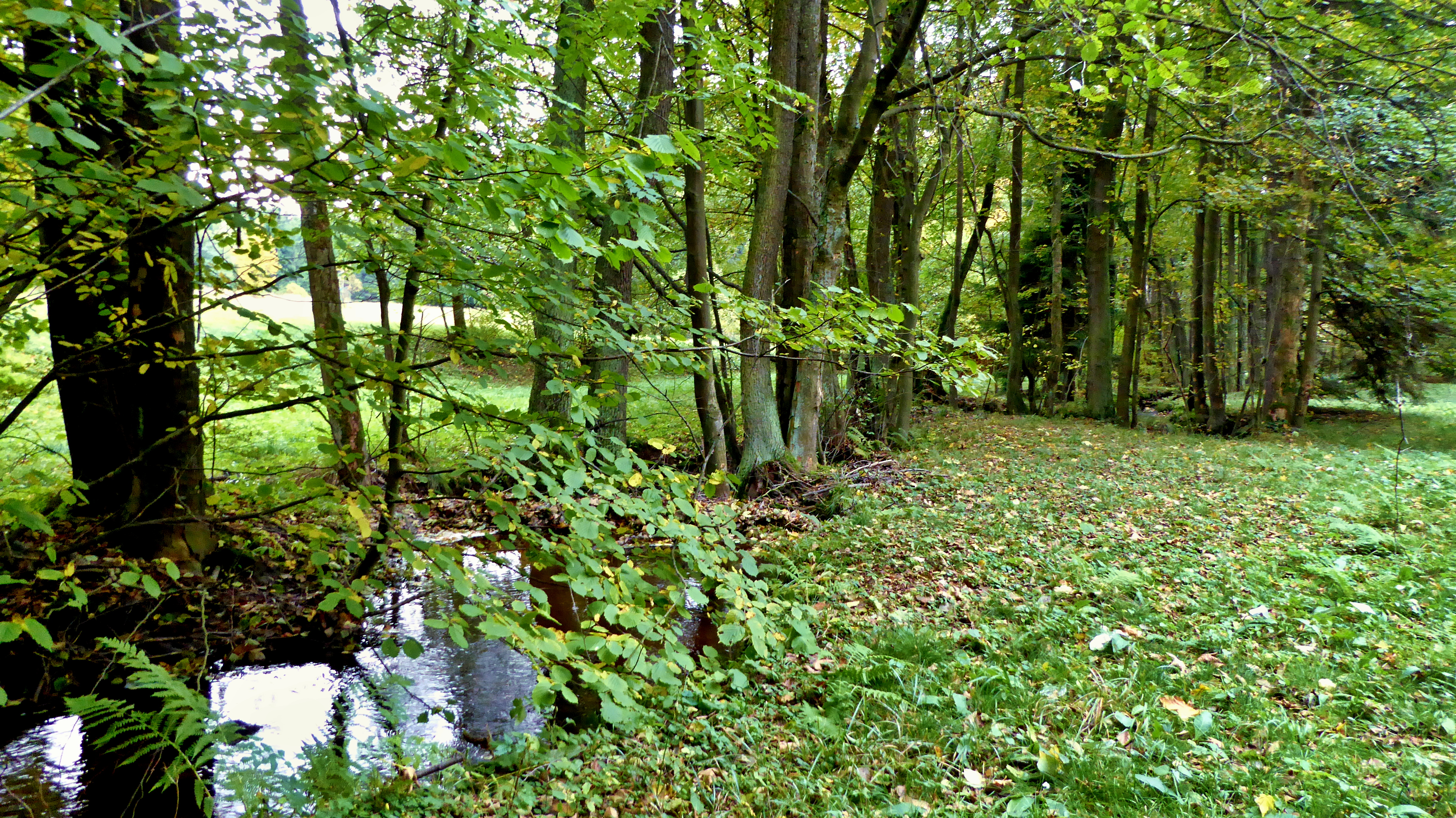 "Světnovské" valley is a natural monument with an area of 2.6 hectares with a meandering stream "Sklenský" with a trees and meadows along the stream, in the range 620-640 m above sea level in "Pohledeckoskalské" highlands. It is located in the cadastral area of the municipality of "Světnov" in the district Žďár nad Sázavou belonging to the "Vysočina" Region in the Czech Republic. The Natural Monument is part of the Protected Landscape Area "Žďárské" Hills. The care of the site is ensured by the Nature and Landscape Protection Agency of the Czech Republic, PLA Administration based in "Žďár nad Sázavou". Photo-location: Czechia, "Vysočina" Region, municipality "Světnov", "Pohledeckoskalská" highlands, "Světnovské" valley (azimuth 277°).